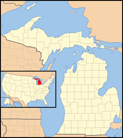 Locator Map of Michigan, United States